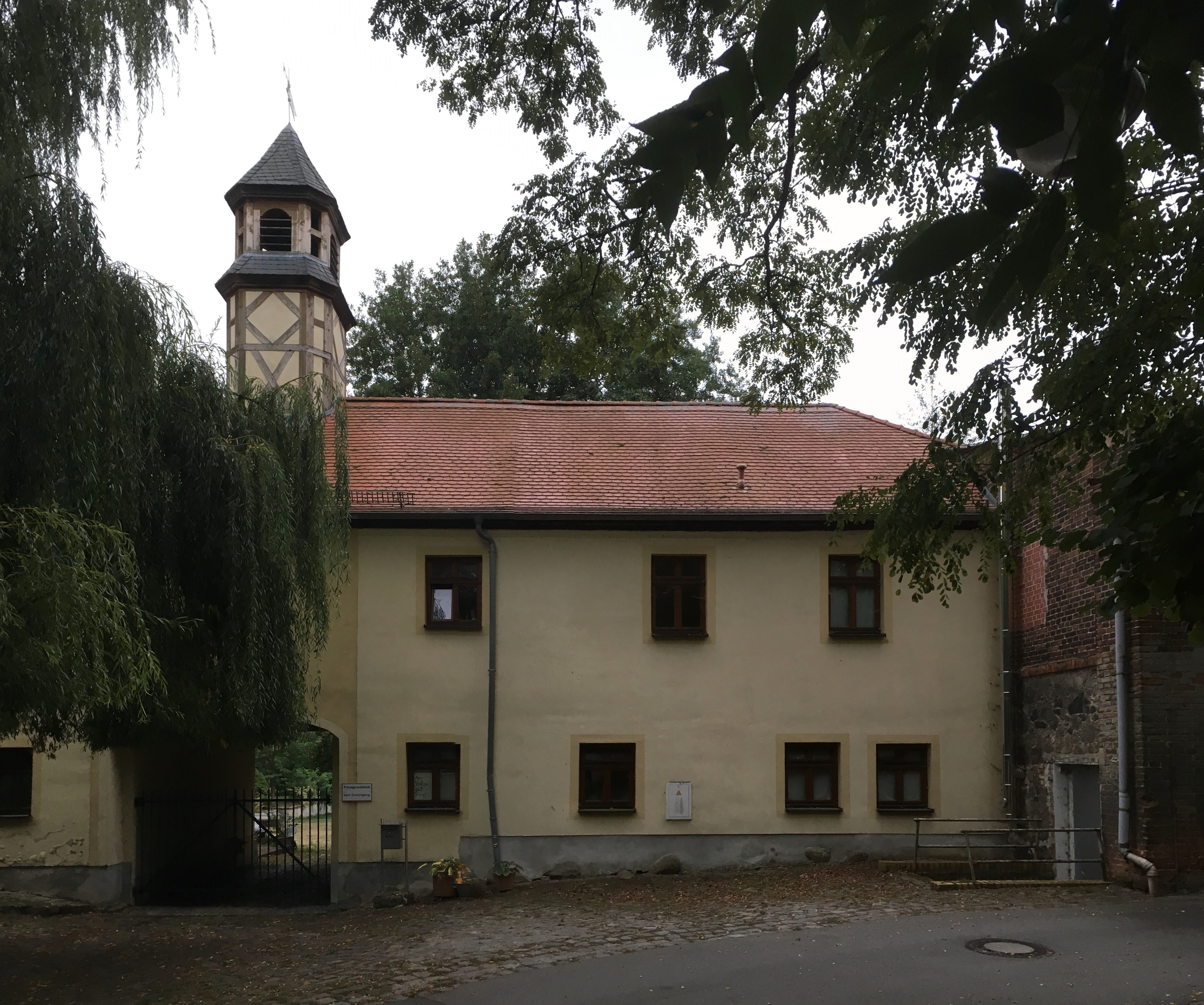 Rittergut and manors park Leipnitz in Dahlenberg, Am Volksgut, gatehouse as the birthplace of the Field Marshal August von Mackensen; of importance for architectural history, local history and landscaping; gatehouse of historical importance; cultural heritage monument